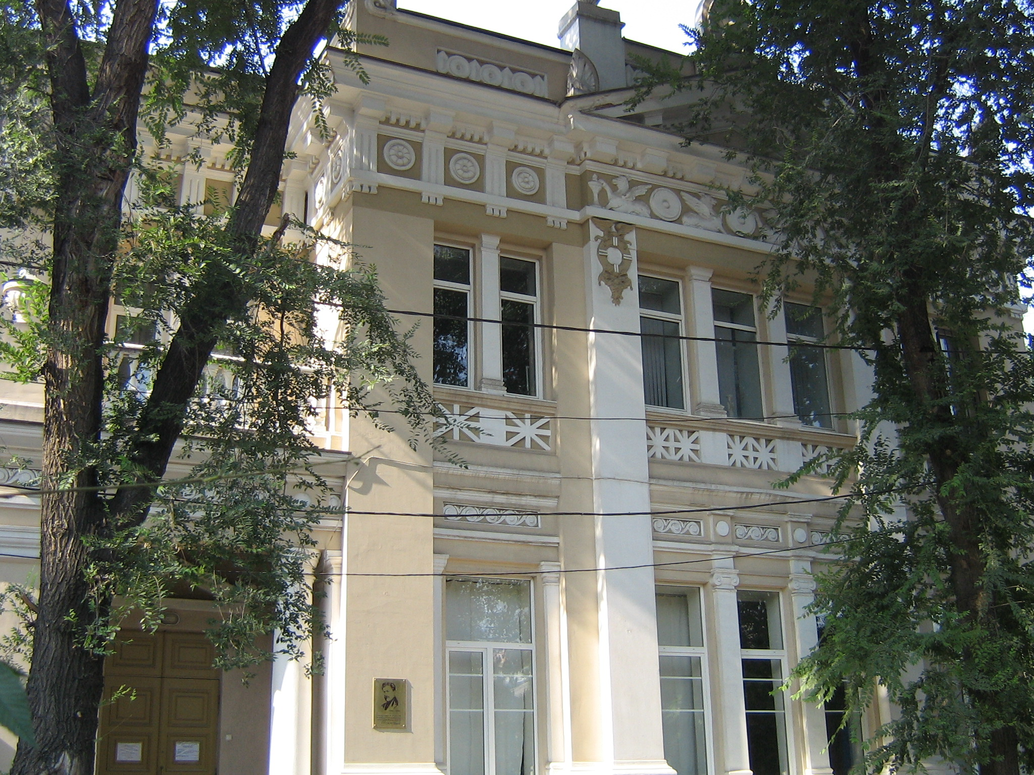 Art school (Rostov-on-Don)